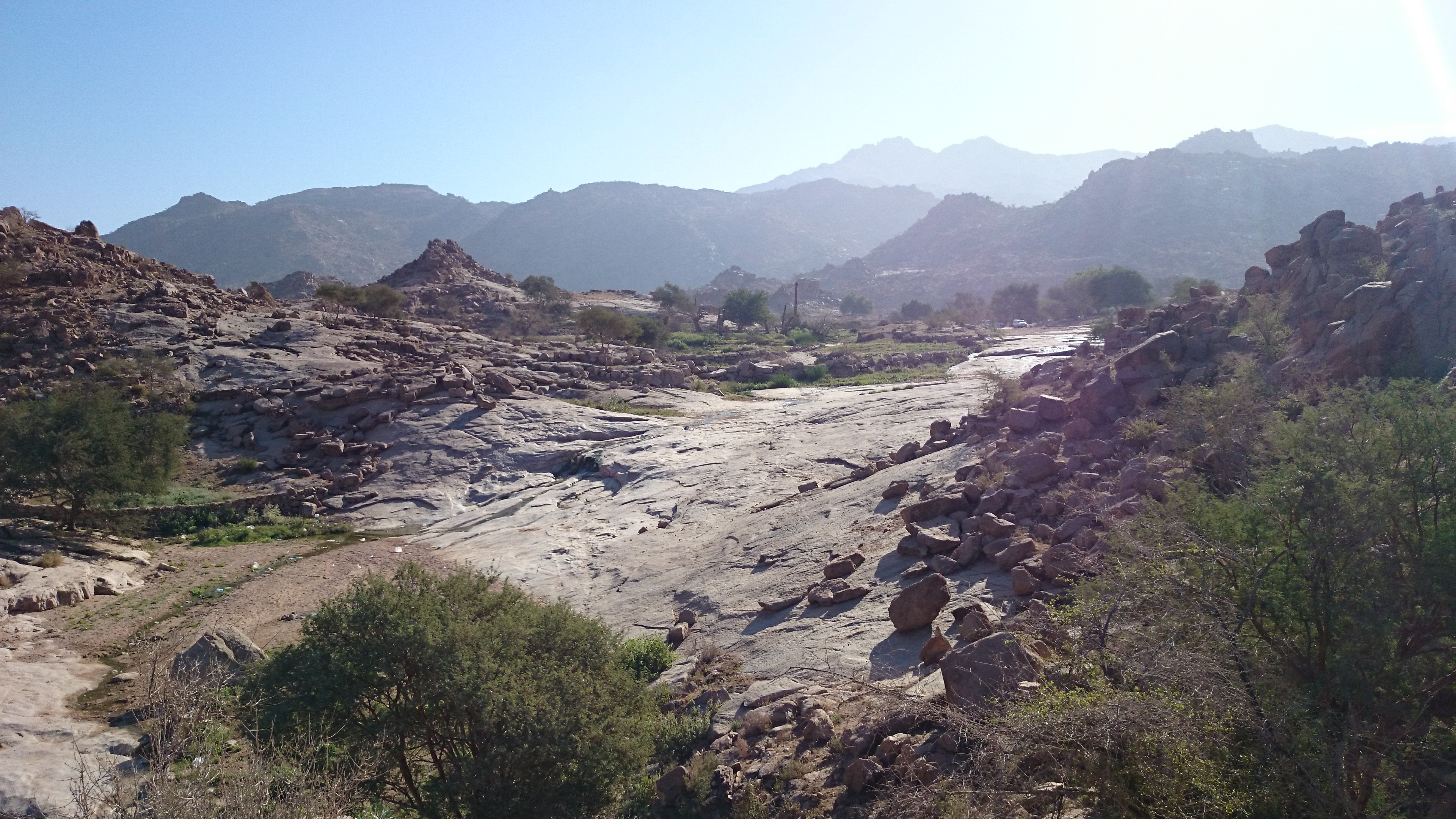 Khasha'a Aljawabirah (Makkah)